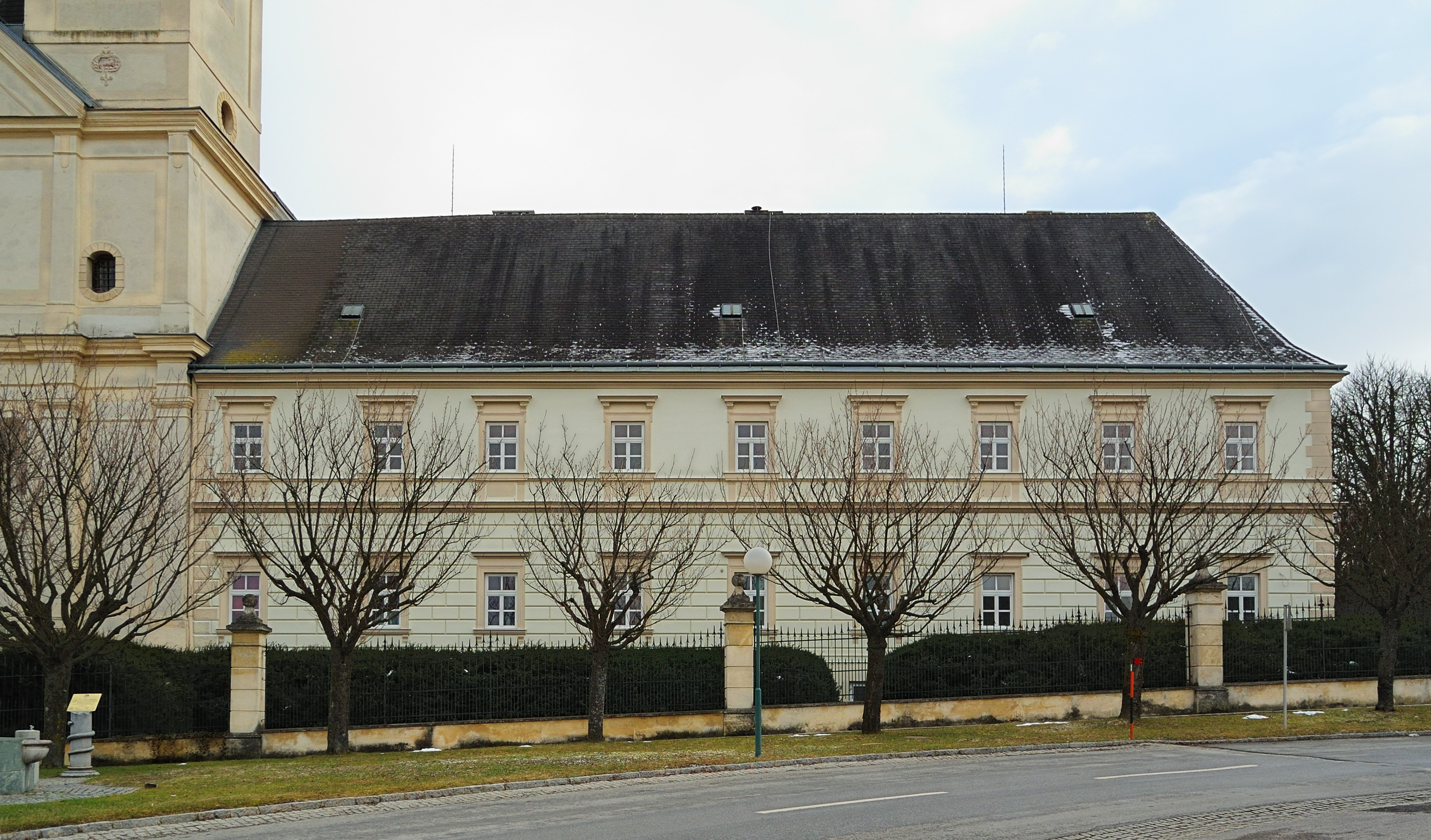 Former Augustinian Monastery in Lockenhaus, Burgenland, Austria